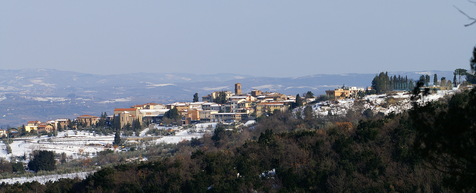 Gambassi Terme seen from Filicaja estates in Montaione, Florence (Italy)